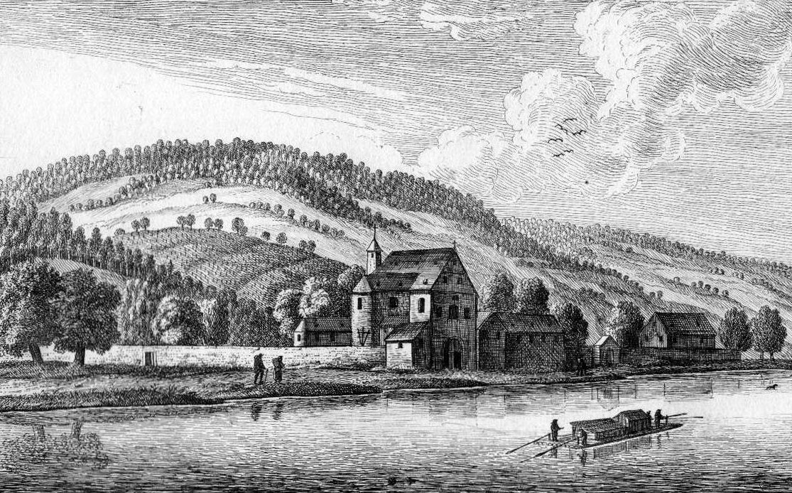 Monastery "Und" between the city Krems and Stein / Wachau 1782(etching)